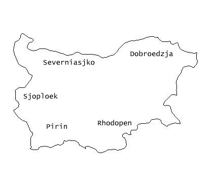 Ethnic/regional map of Bulgaria with names of regions in Dutch